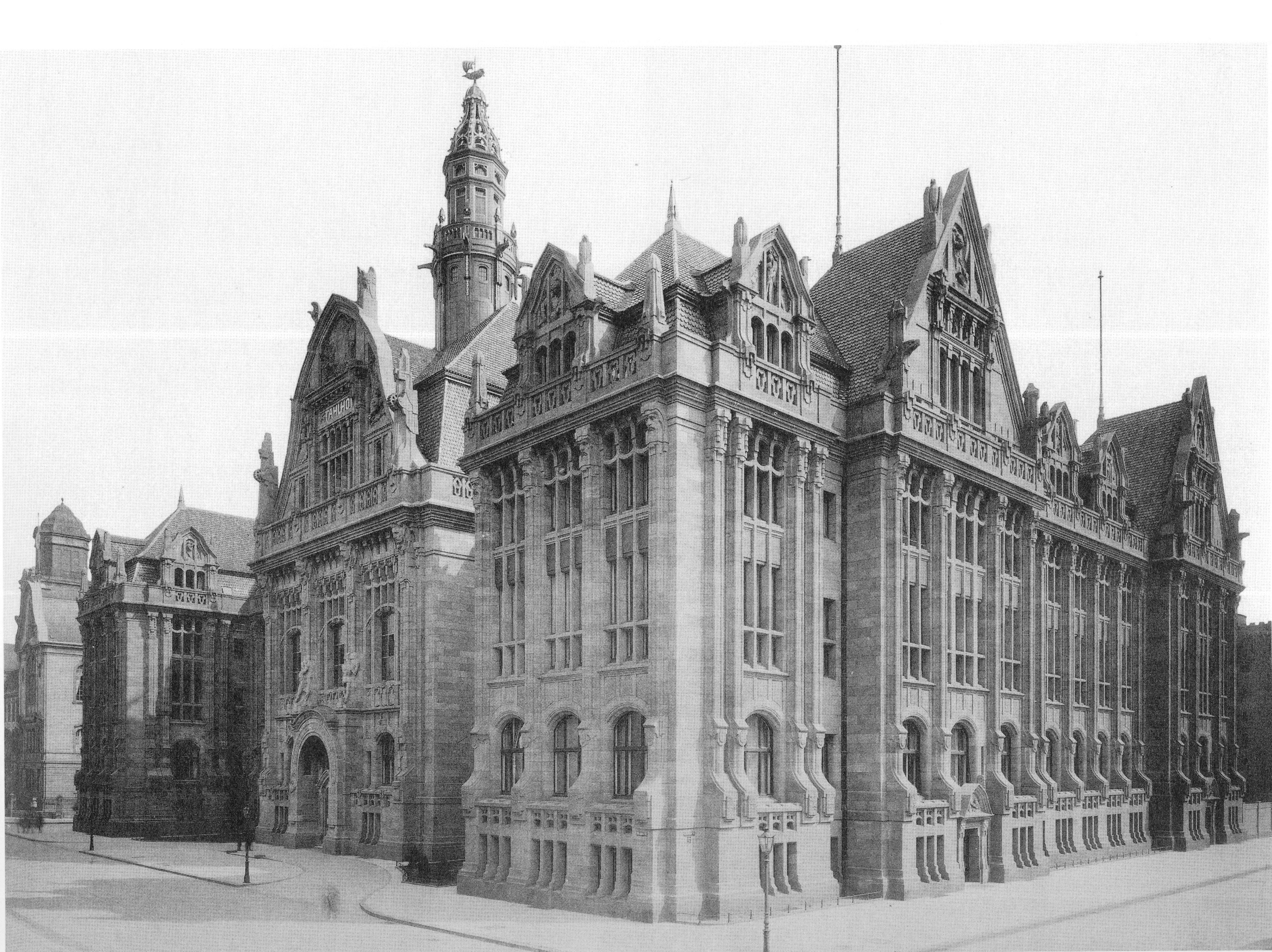 Düsseldorf Stahlhof, Bastionstr. 39, Architect Johannes Radke.